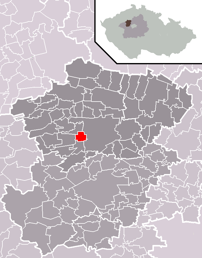 Location of Studeněves municipality within Kladno District and administrative area of Slaný as a Municipality with Extended Competence.